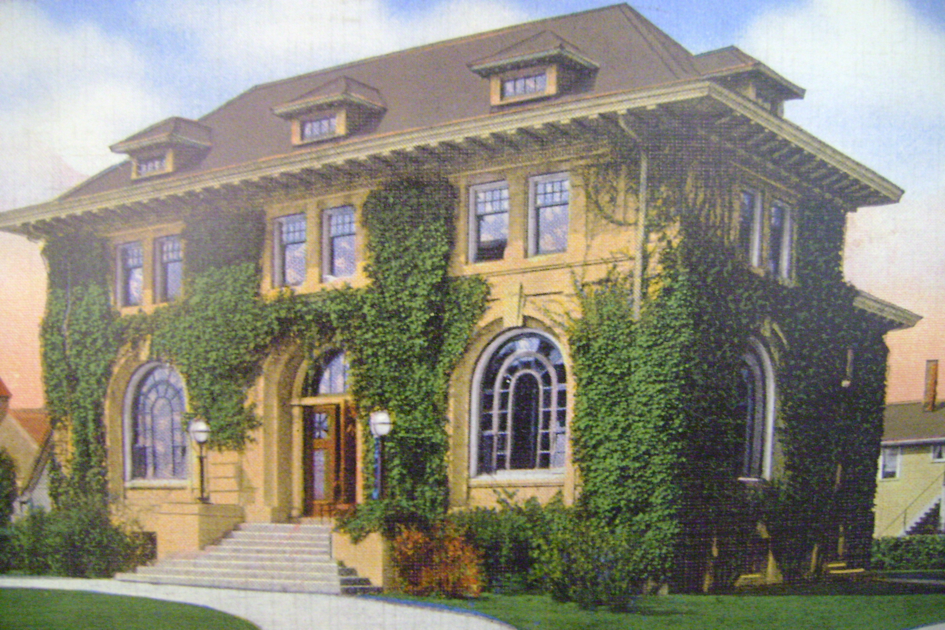 Mason County District Library, c. 1925